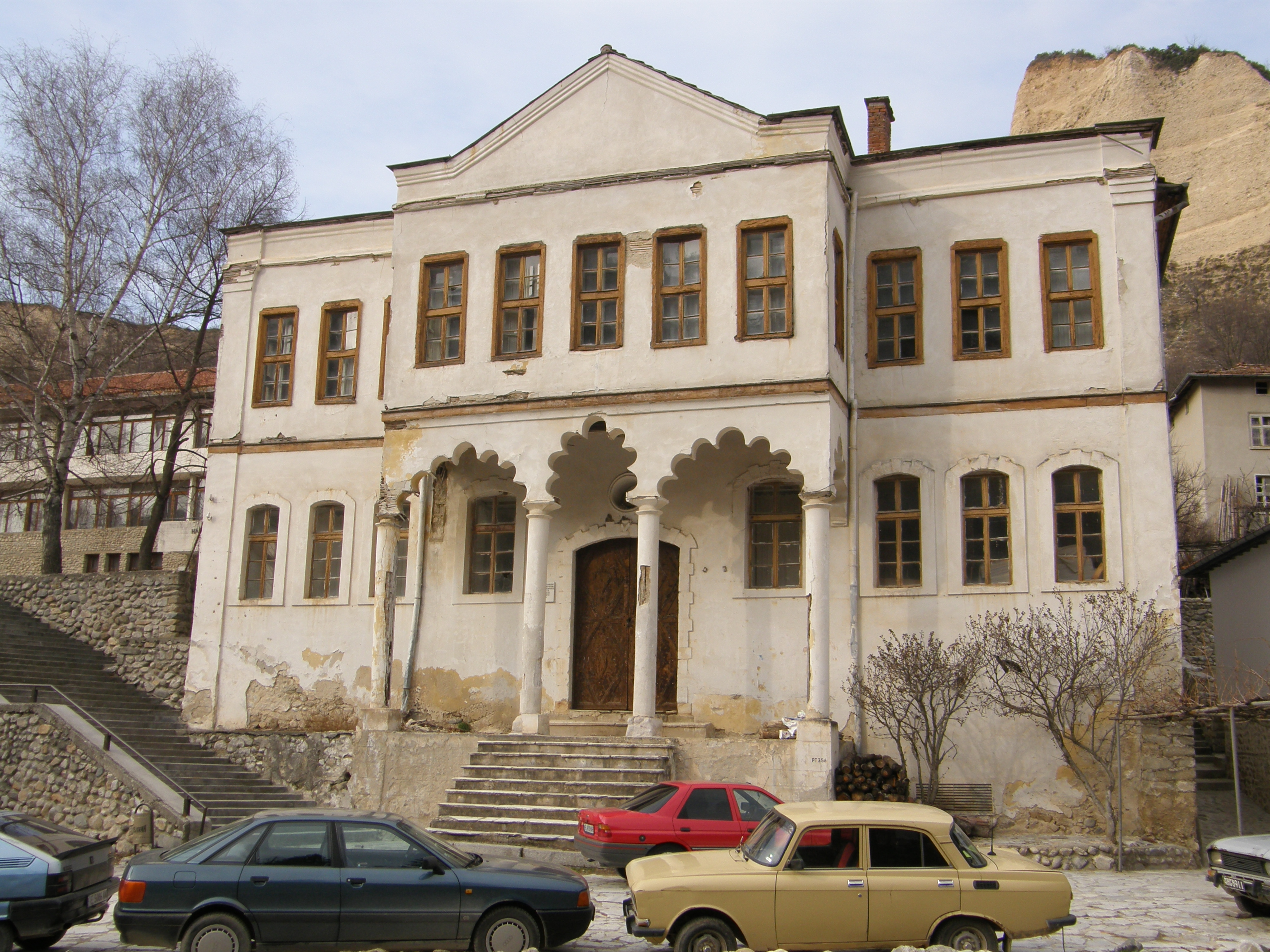 The former Turkish Konak (Administrative Building) at Melnik, Bulgaria. Melnik today...